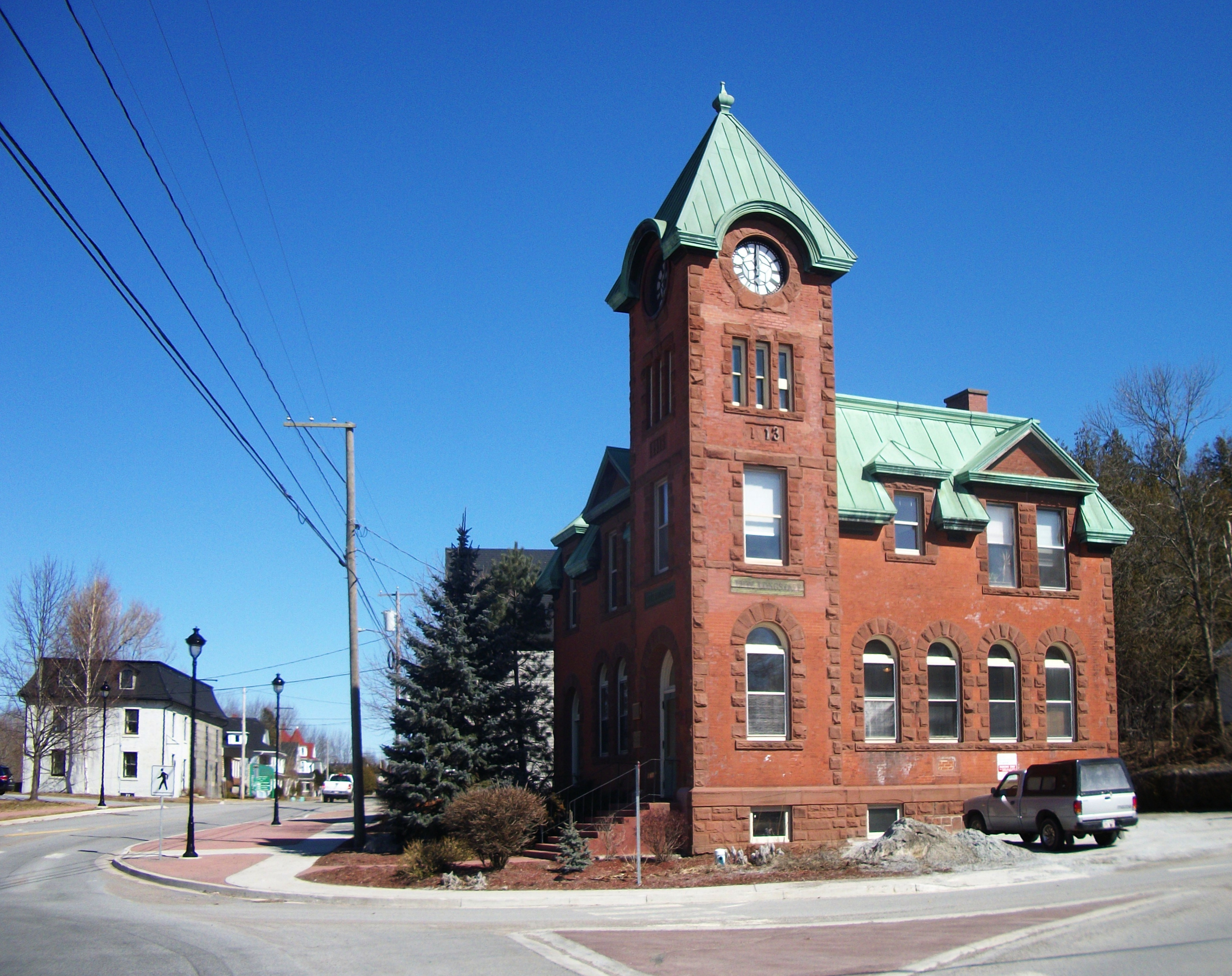 Former post office in Hampton, NB. It currently houses law offices and the Mongolian consulate.